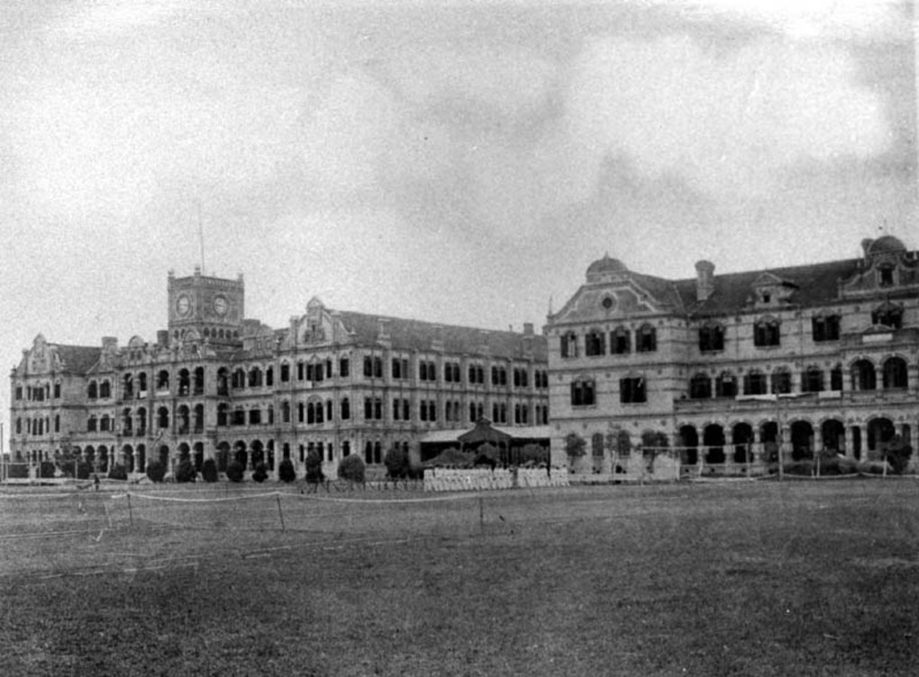 Nanyang College, predecessor of Shanghai Jiao Tong University